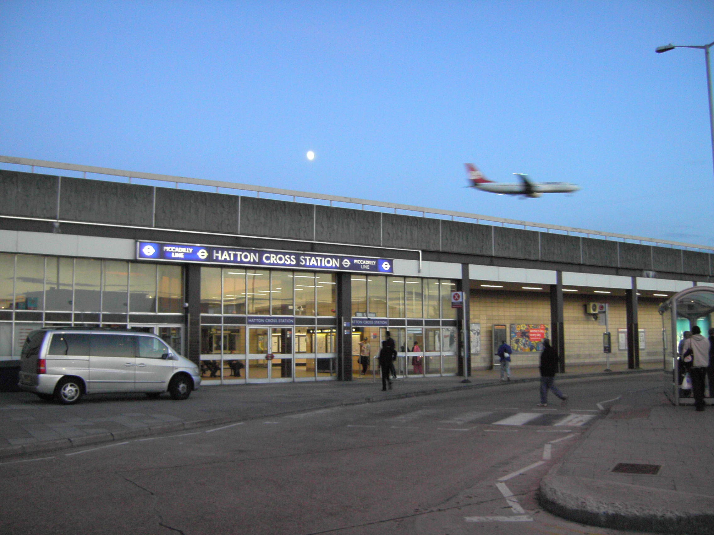 Hatton Cross tube station.